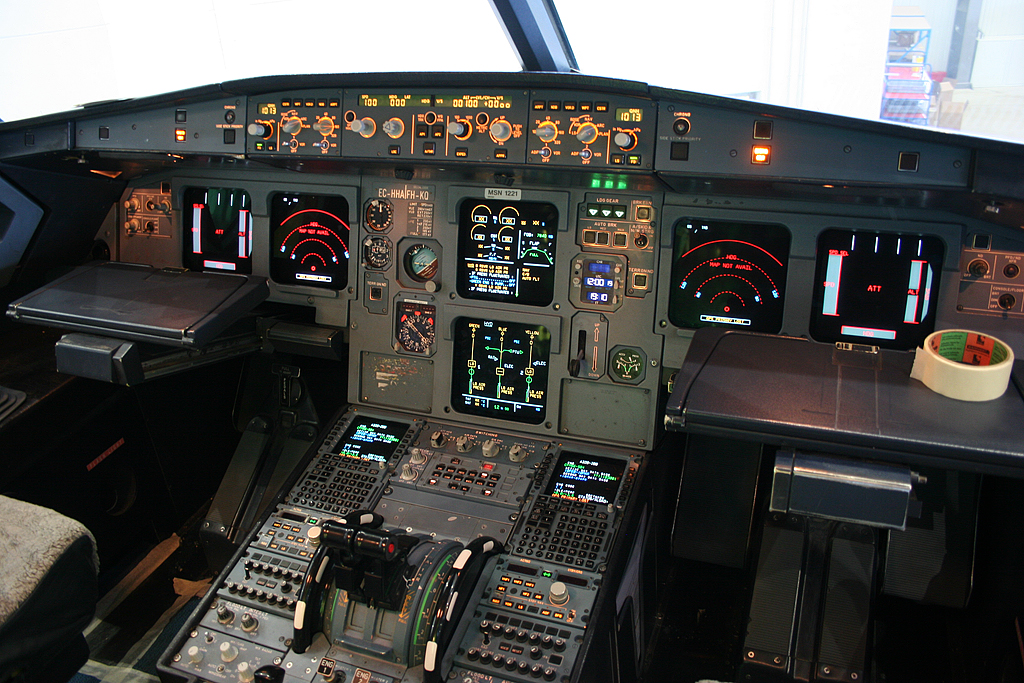 In C-Check revision